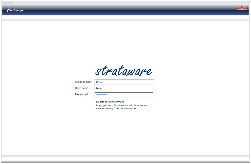 Strataware login screenshot